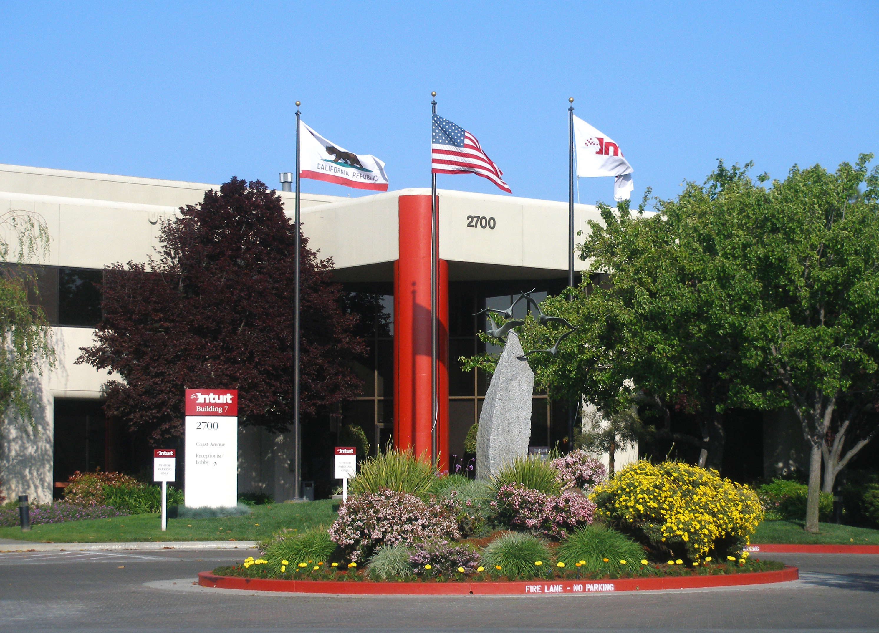 The headquarters of Intuit Inc. in Mountain View, California (Silicon Valley)